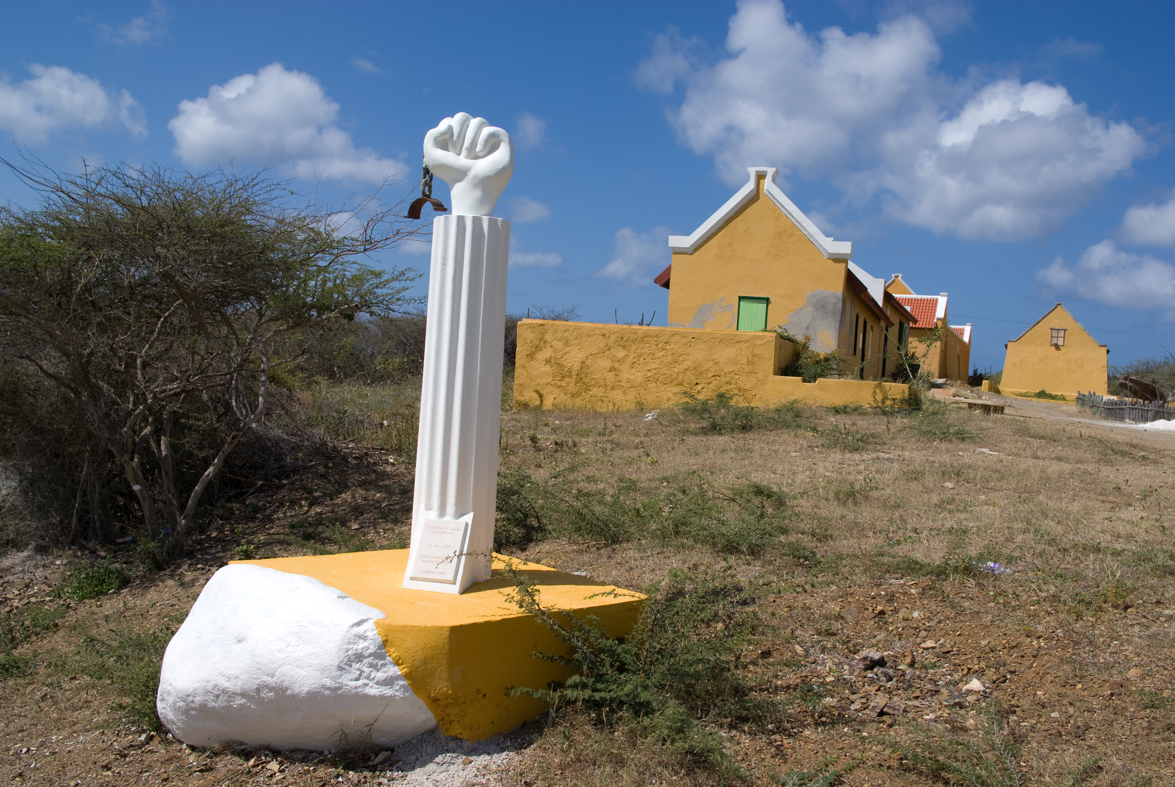 Statue commemorating the Curaçao Slave Revolt of 1795 with the Landhuis Kenepa in the background.